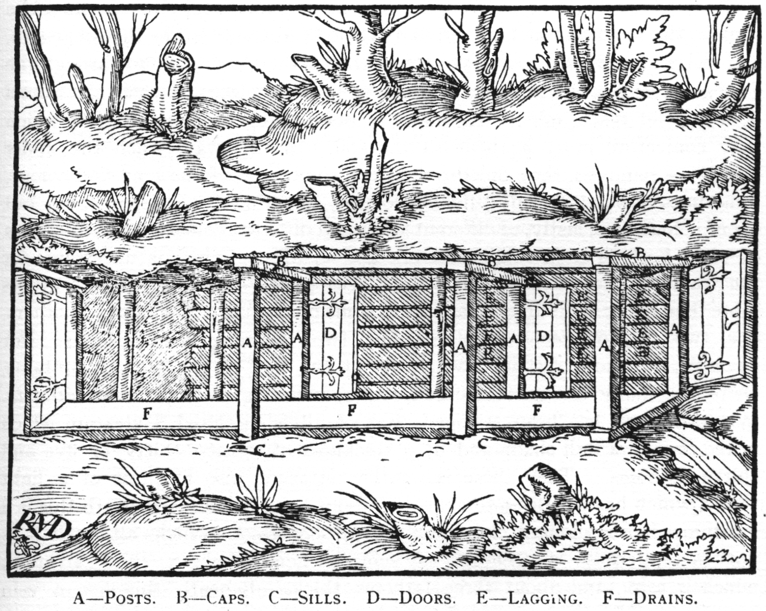 Woodcut illustration from De re metallica by Georgius Agricola. This is a 300dpi scan from the 1950 Dover edition of the 1913 Hoover translation of the 1556 reference. The Dover edition has slightly smaller size prints than the Hoover (which is a rare book). The woodcuts were recreated for the 1913 printing. Filenames (except for the title page) indicate the chapter (2, 3, 5, etc.) followed by the sequential number of the illustration.